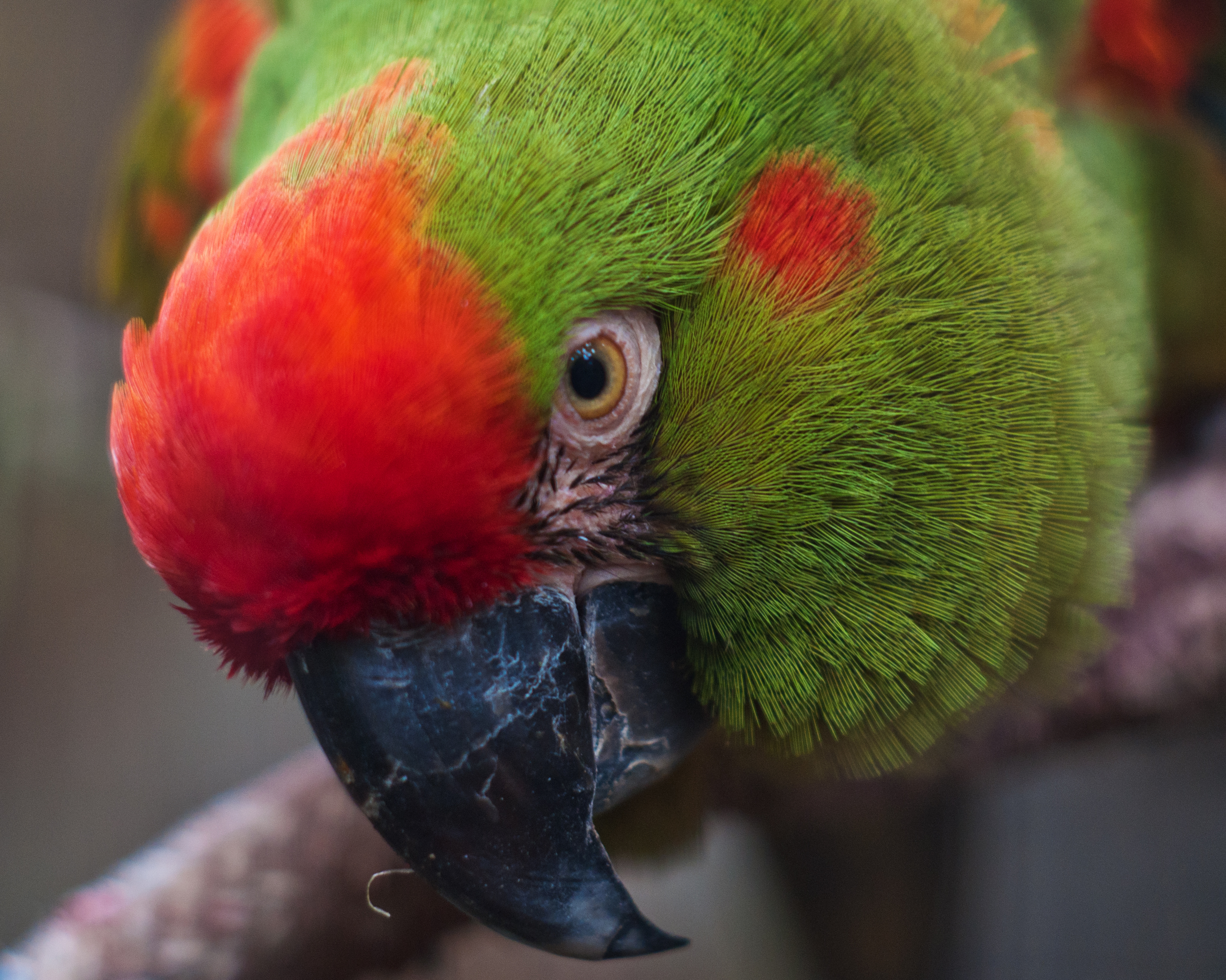 A Red-fronted Macaw at Tulsa Zoo, Oklahoma, USA.